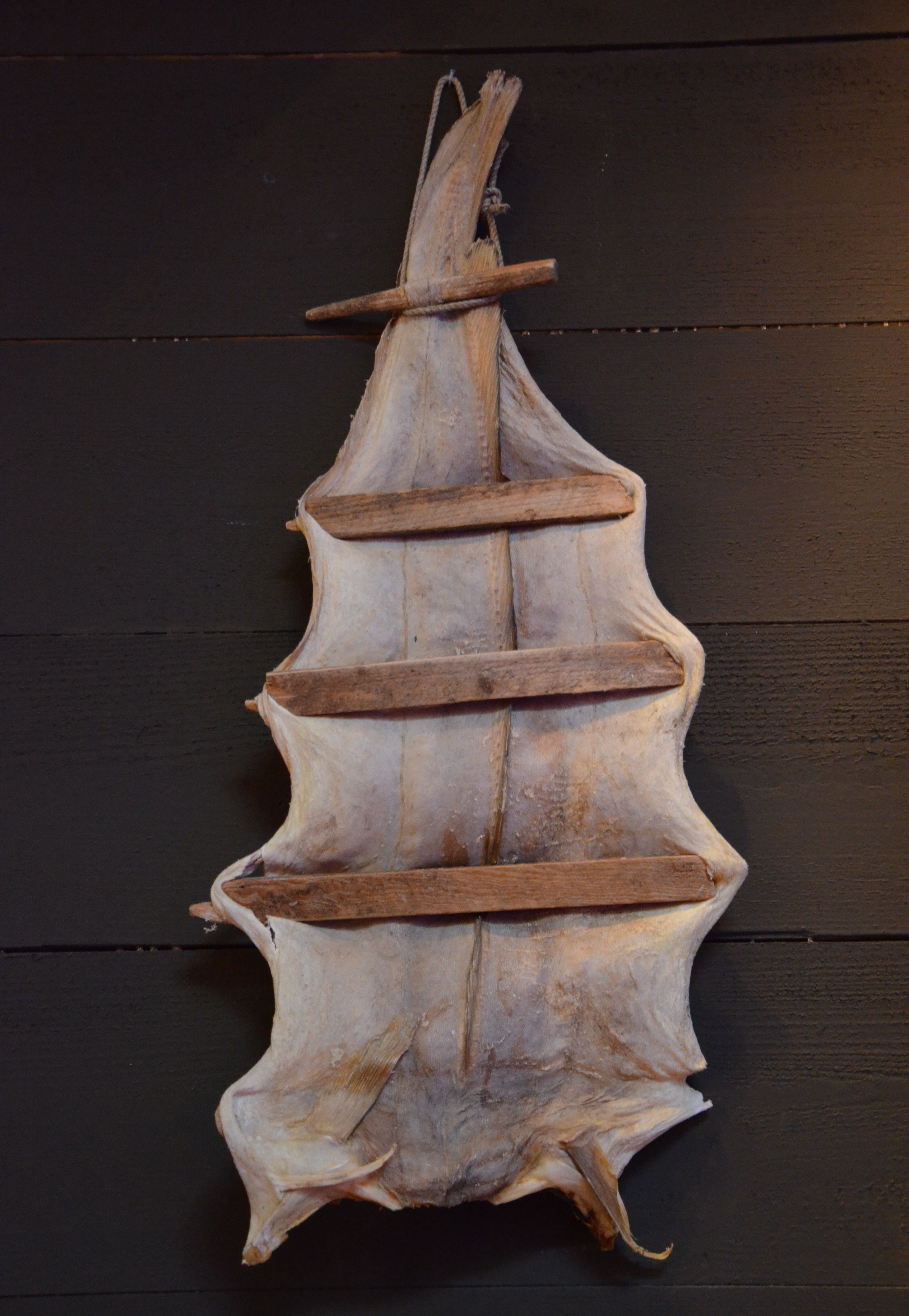 Stockfish, Bohusläns museum in Uddevalla, Sweden